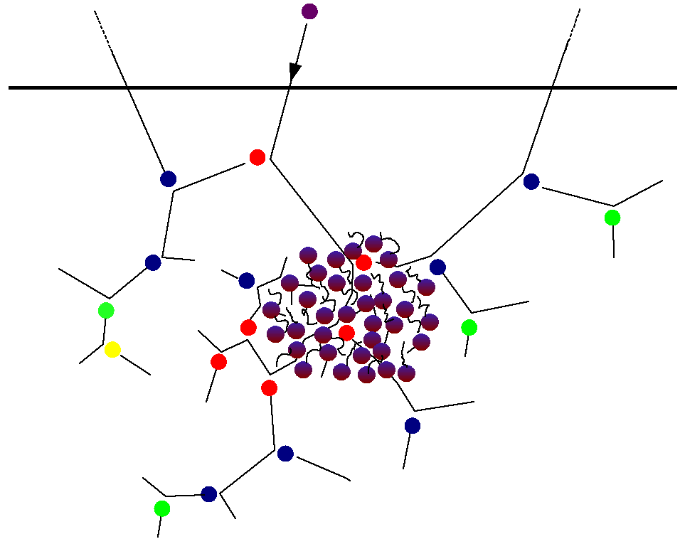 Schematic illustration of a linear collision cascade and a heat spike. The thick line illustrates the position of the surface, and the thinner lines the ballistic movement paths of the atoms from beginning until they stop in the material. The purple circle is the incoming ion. Red, blue, green and yellow circles illustrate primary, secondary, tertiary and quaternary recoils, respectively. In between the ballistic collisions the ions move in a straight path, but in the middle the region of collisions has become so dense that multiple collisions occur simulatenously, which is called a heat spike. In this region the ions move in complex paths, and it is not possible to distinguish the numerical order of recoils - hence the atoms are colored with a mixture of red and blue.